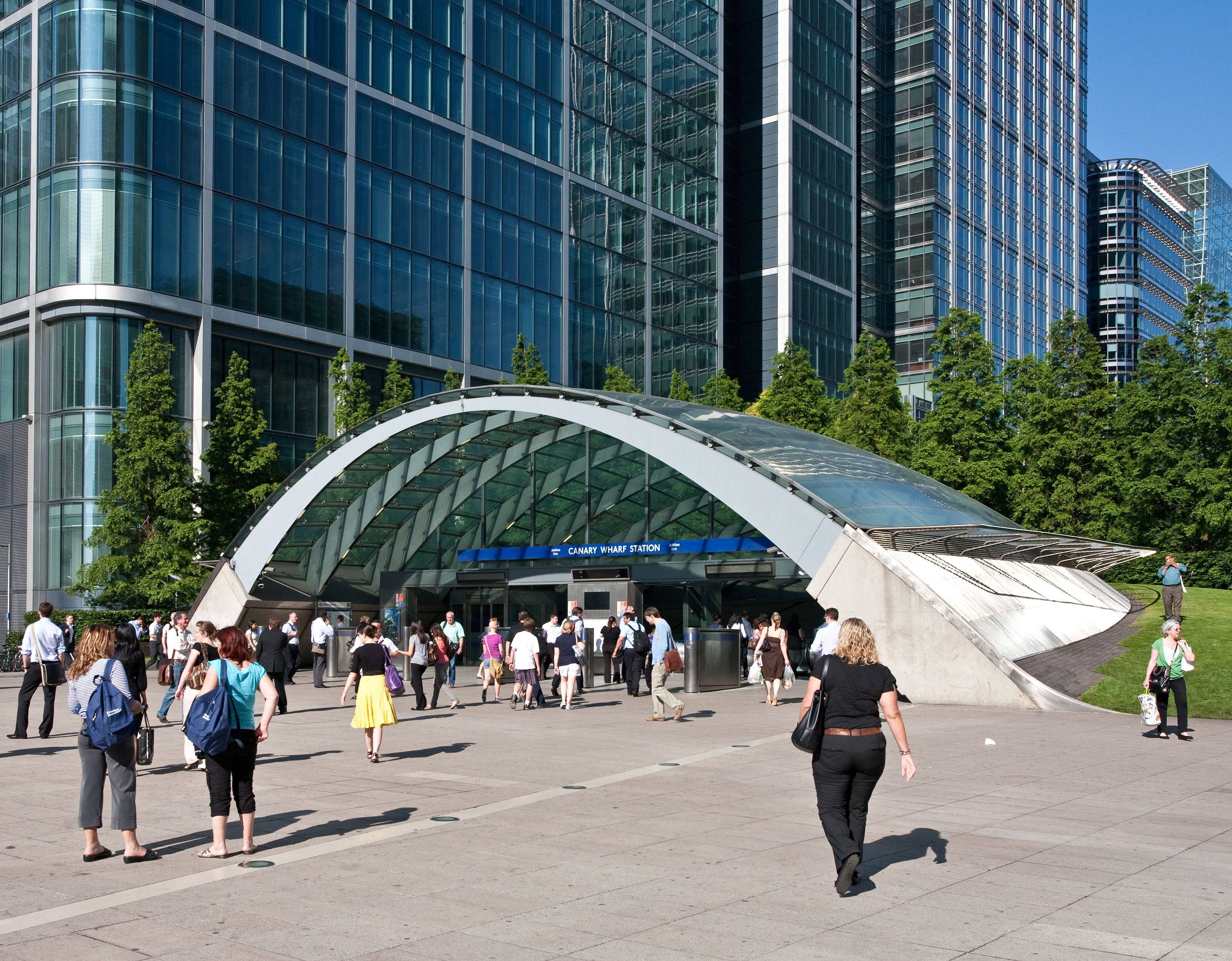 Canary Wharf tube station as viewed from the south-west.